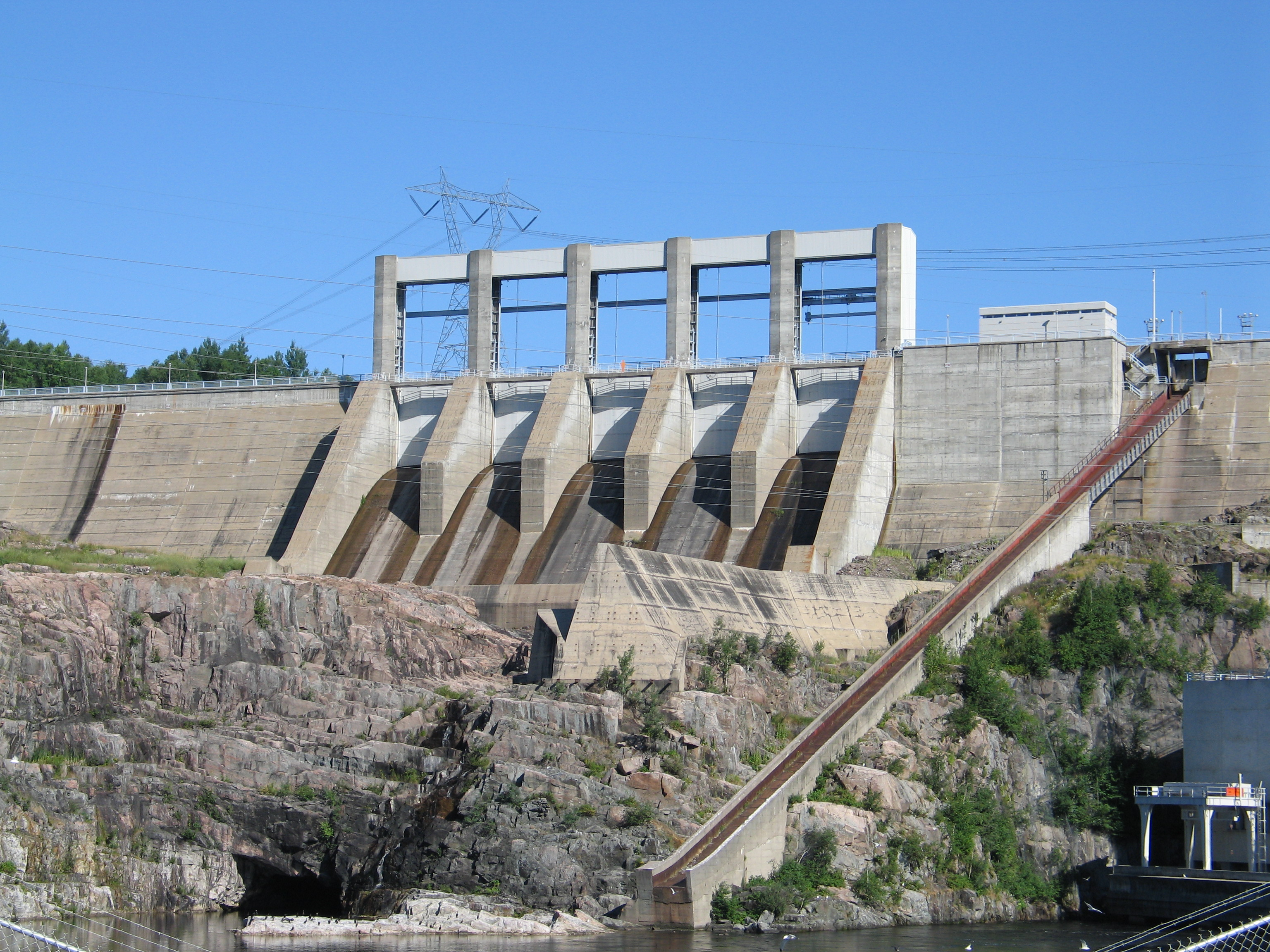 Formerly known as Manic-2, the Jean-Lesage generating station, is located 23 km north of the city of Baie-Comeau, Quebec.